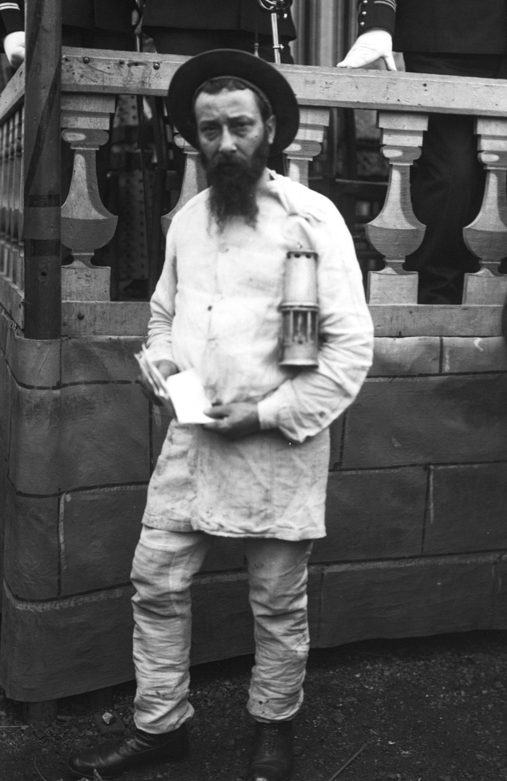 French miner and poet Jules Mousseron (1868-1943)